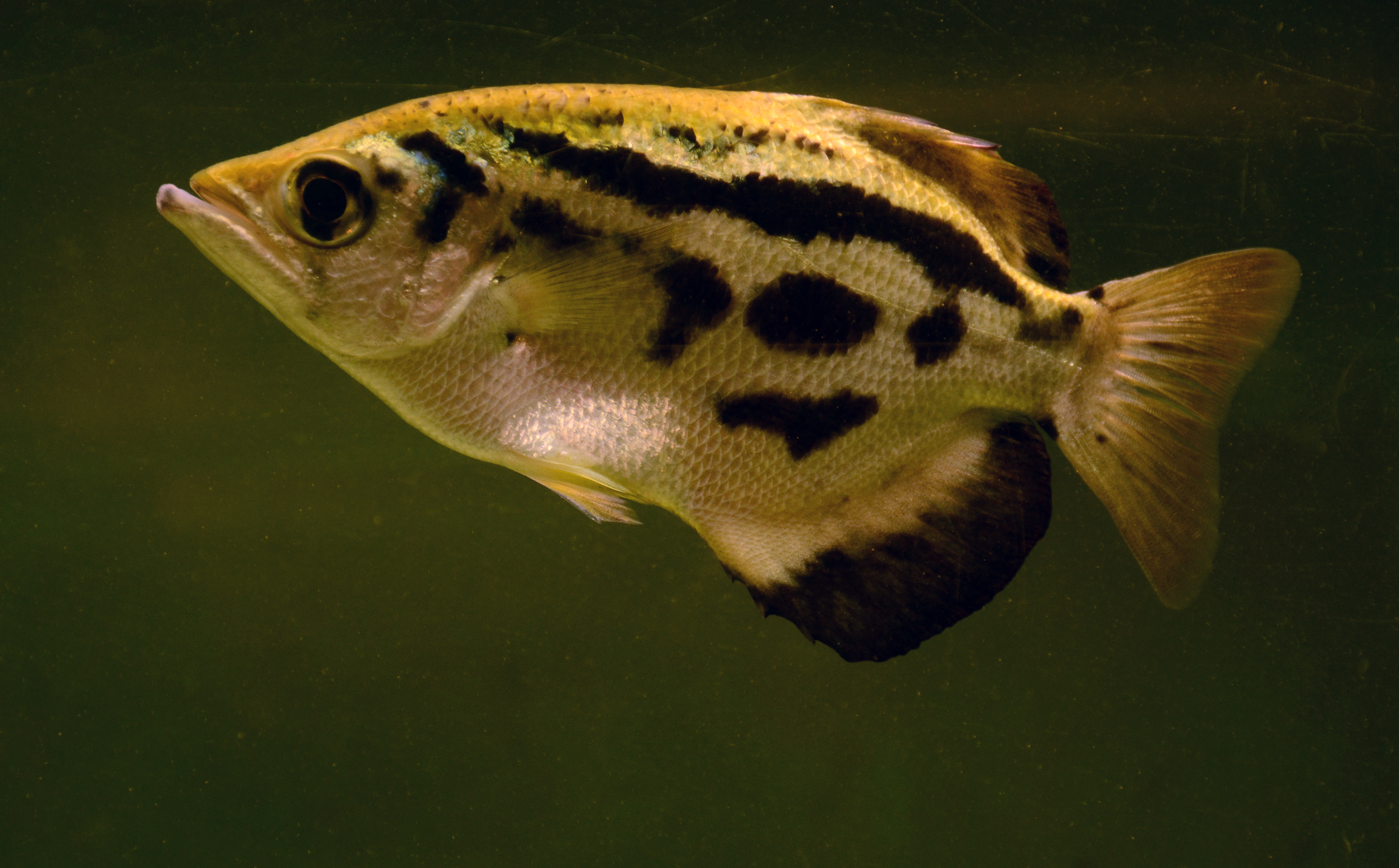 clouded archerfish or zebra archerfish ( Toxotes Blythii ) in Aquarium Dubuisson, in Liège.